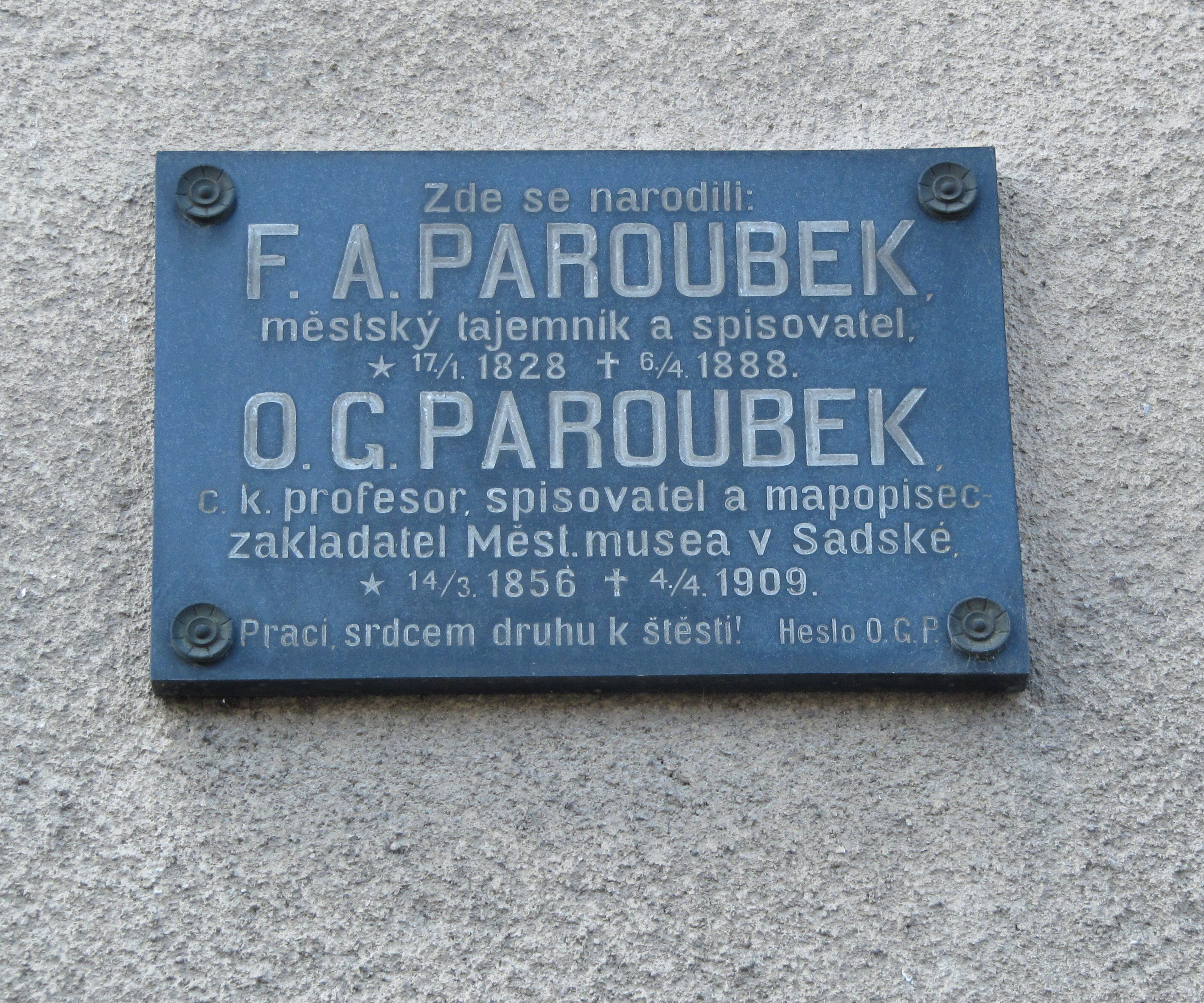 Sadská in Nymburk District, Czech Republic. Plaque.